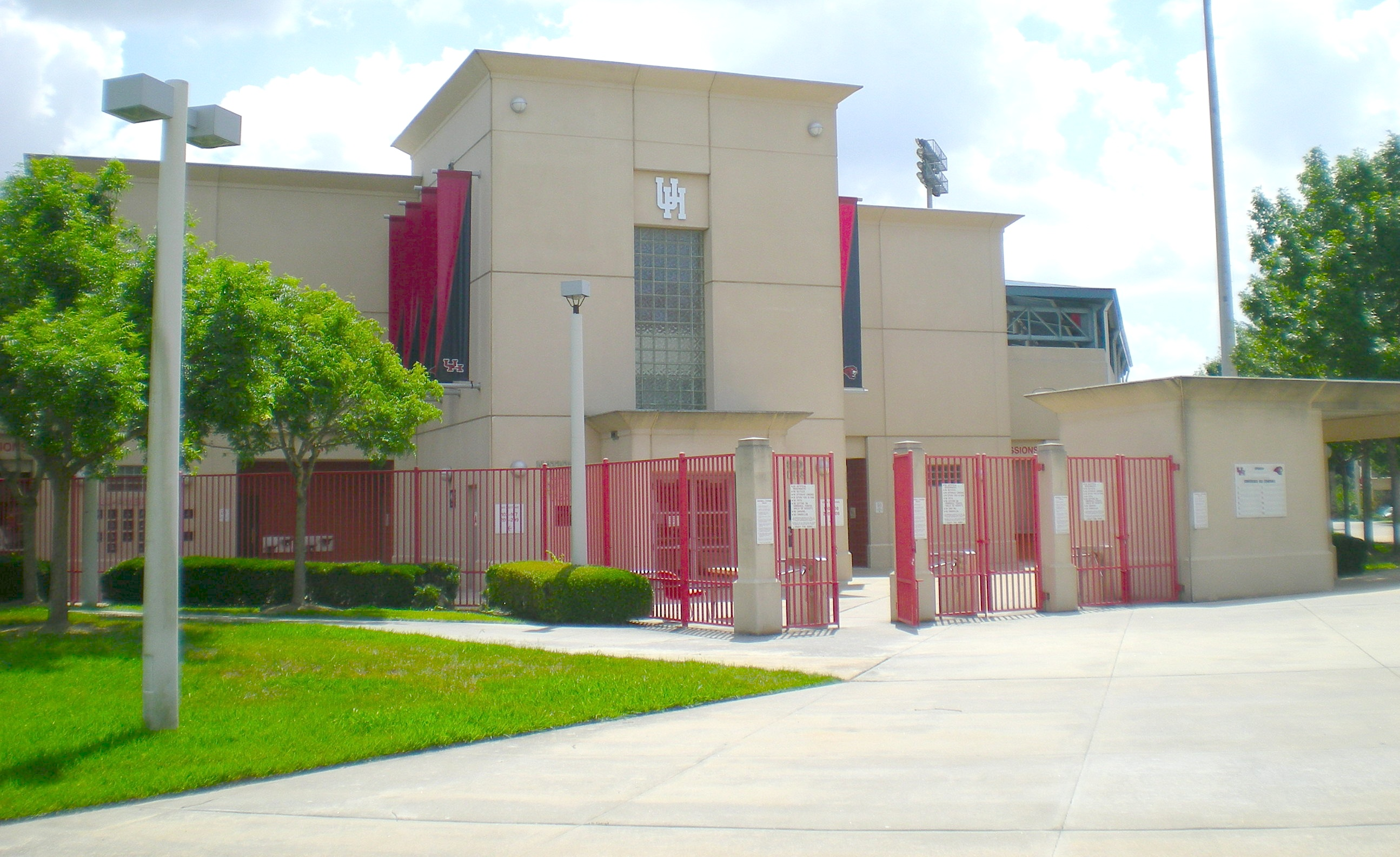 The outside of Cougar Field, the home of the Houston Cougars baseball team on the campus of the University of Houston.